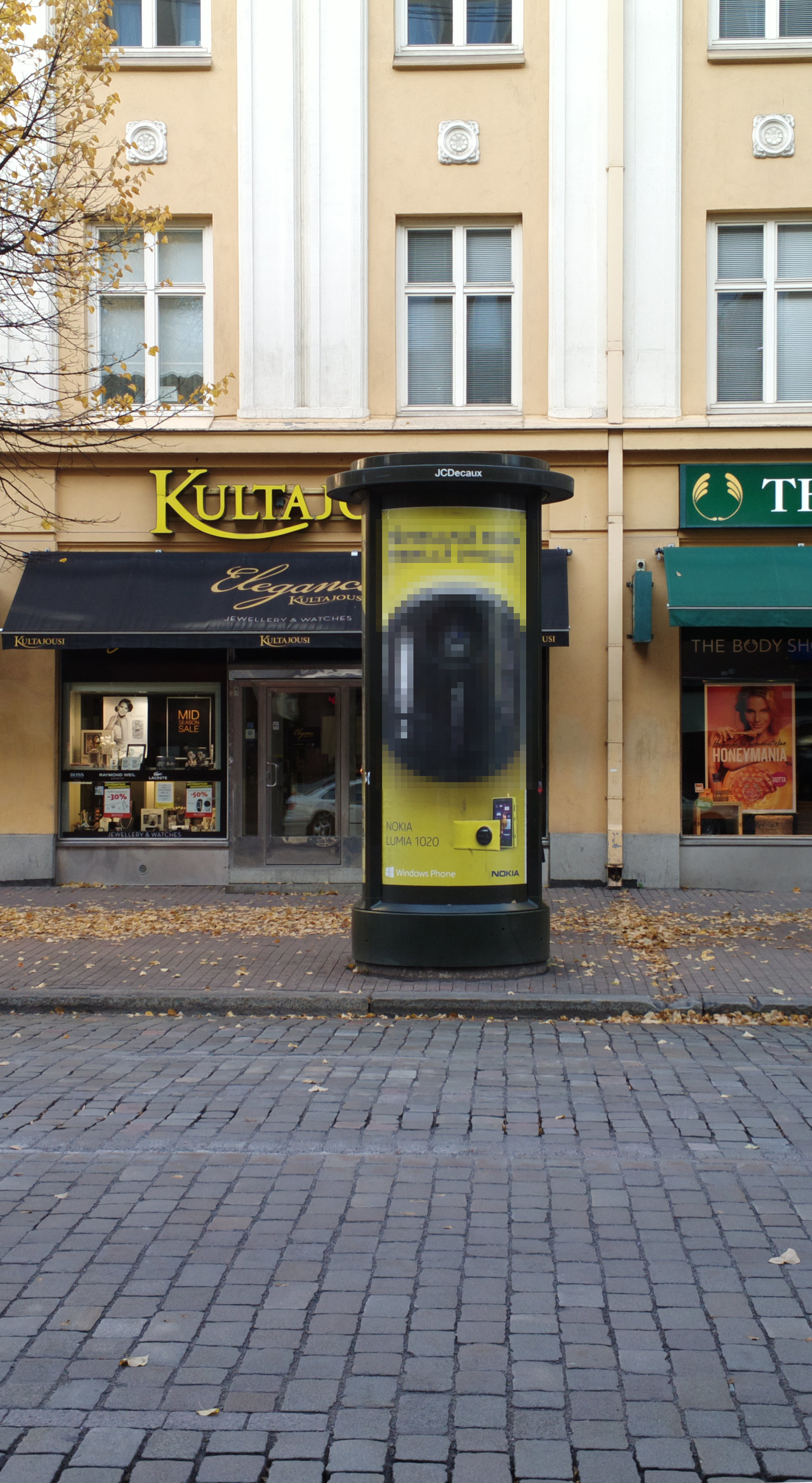 Cylindrical billboard with Nokia Lumia 1020 in Tampere 2013